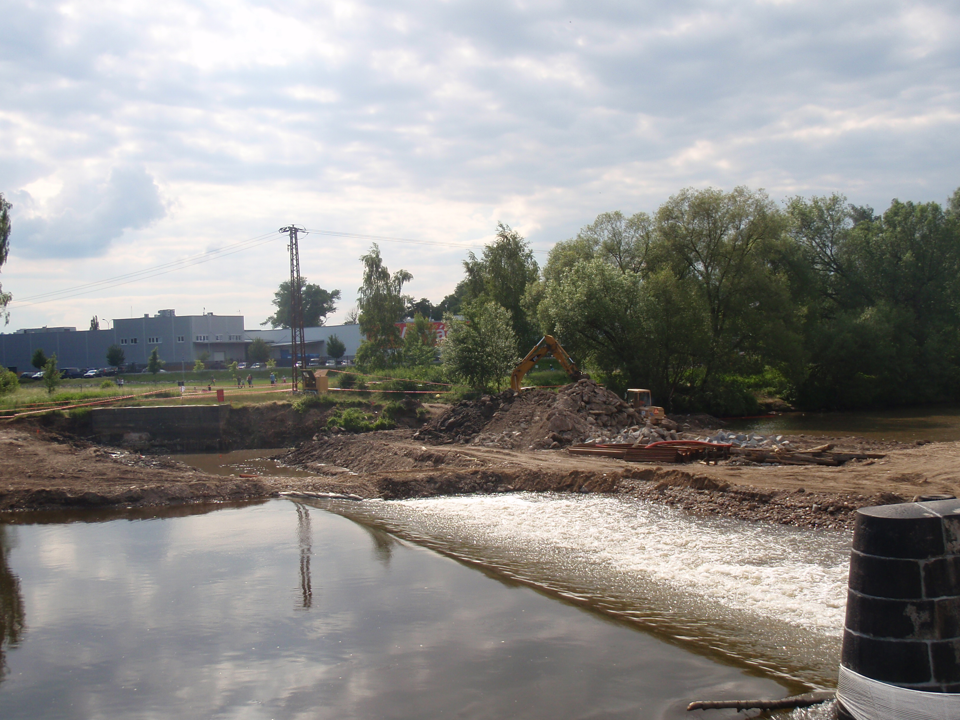 Rekontrucition